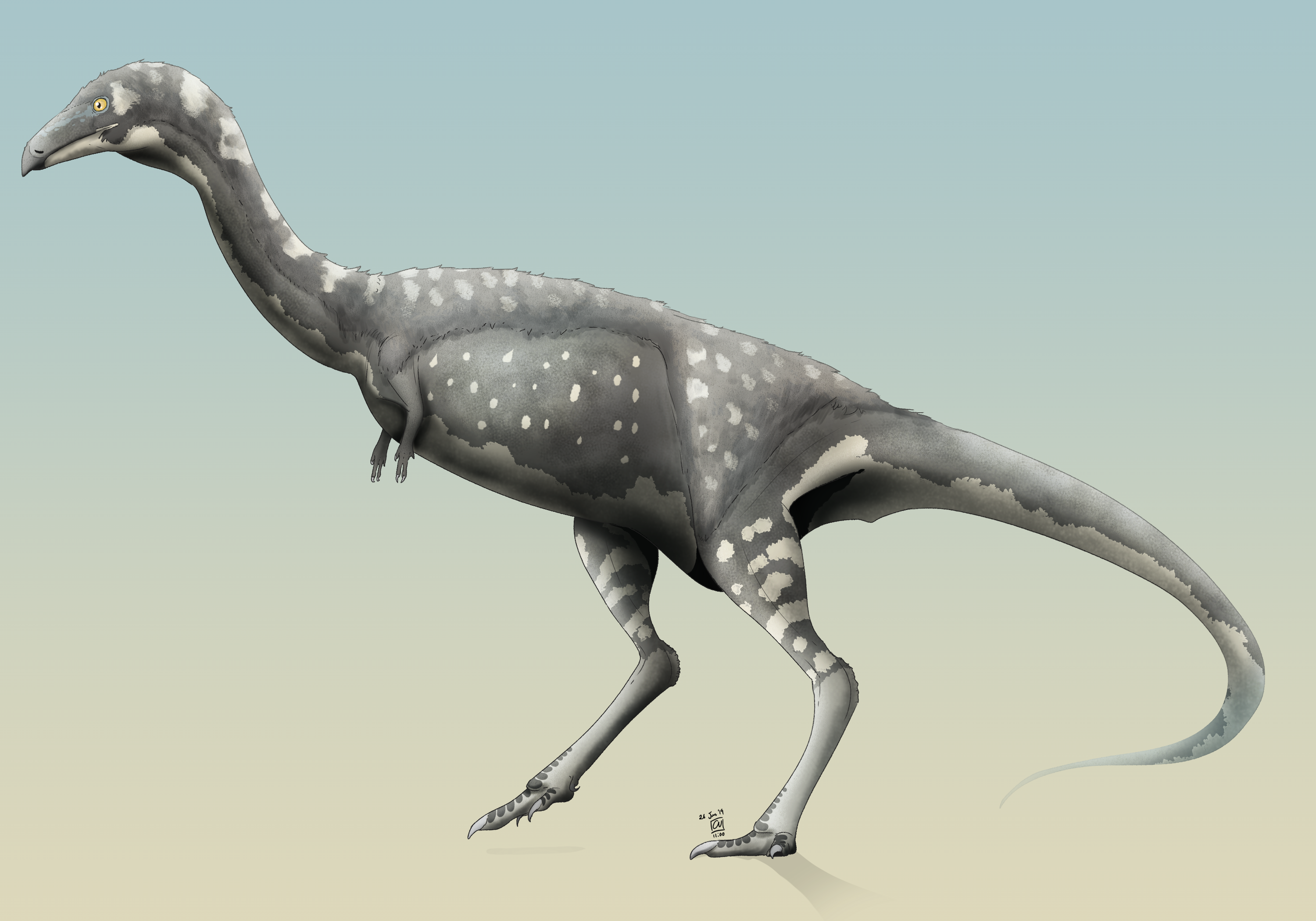 This is a digital illustration of the theropod dinosaur Vespersaurus paranaensis.